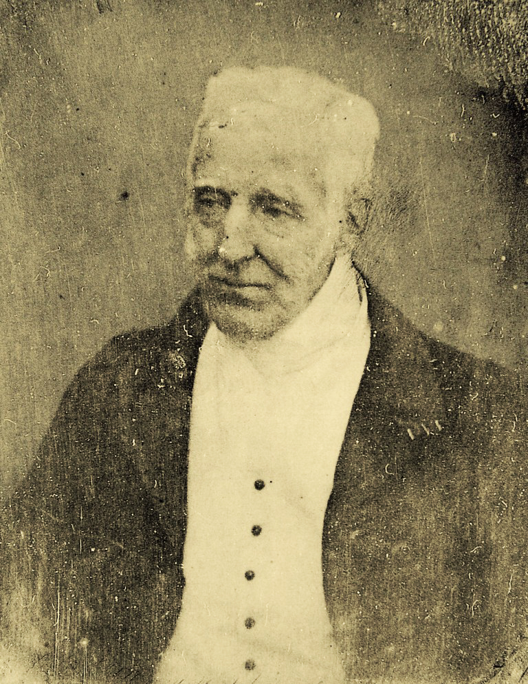 Portrait of the aged Arthur Wellesley, 1st Duke of Wellington